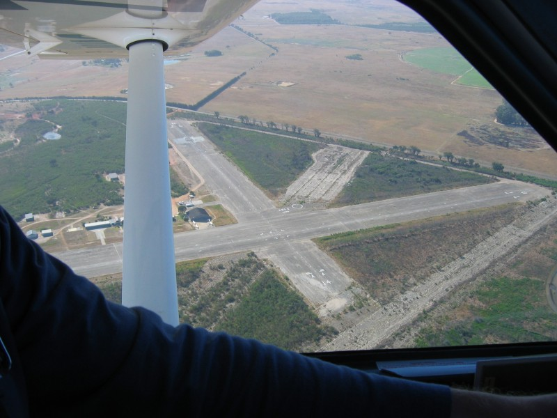 Fisantekraal Airfield FAFK as viewed from 1600ft AGL from the North